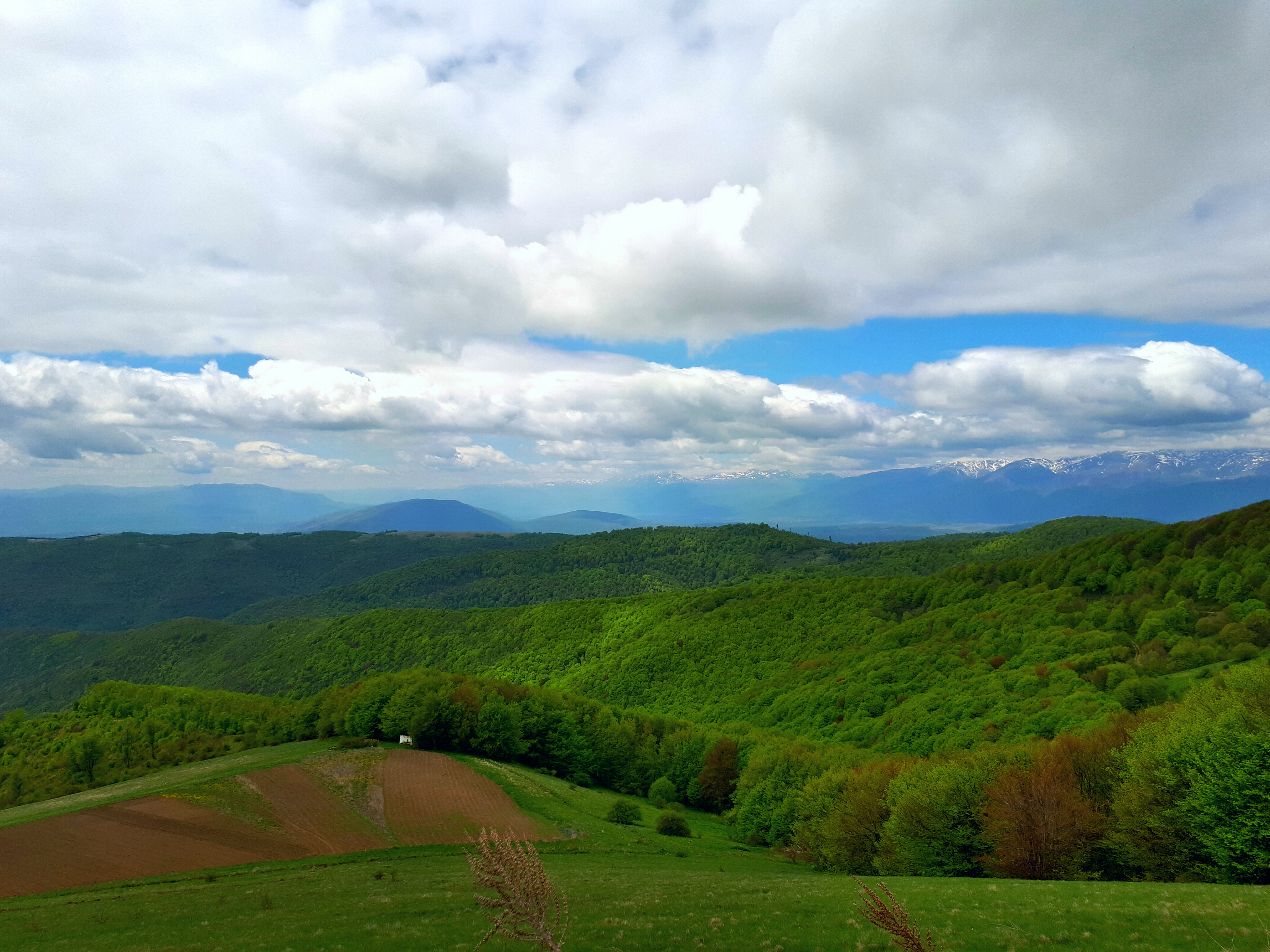 View of the Skopska Crna Gora Mountain